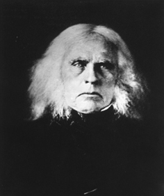 Summary Licensing This media file is in the public domain in the United States. This applies to U.S. works where the copyright has expired, often because its first publication occurred prior to January 1, 1923. See this page for further explanation. This image might not be in the public domain outside of the United States; this especially applies in the countries and areas that do not apply the rule of the shorter term for US works, such as Canada, Mainland China (not Hong Kong or Macao), Germany, Mexico, and Switzerland. The creator and year of publication are essential information and must be provided. See Wikipedia:Public domain and Wikipedia:Copyrights for more details.